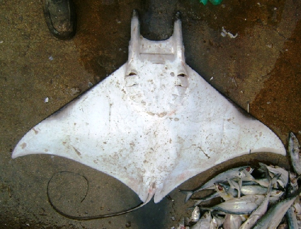 Mobula eregoodootenkee in Karachi, Pakistan